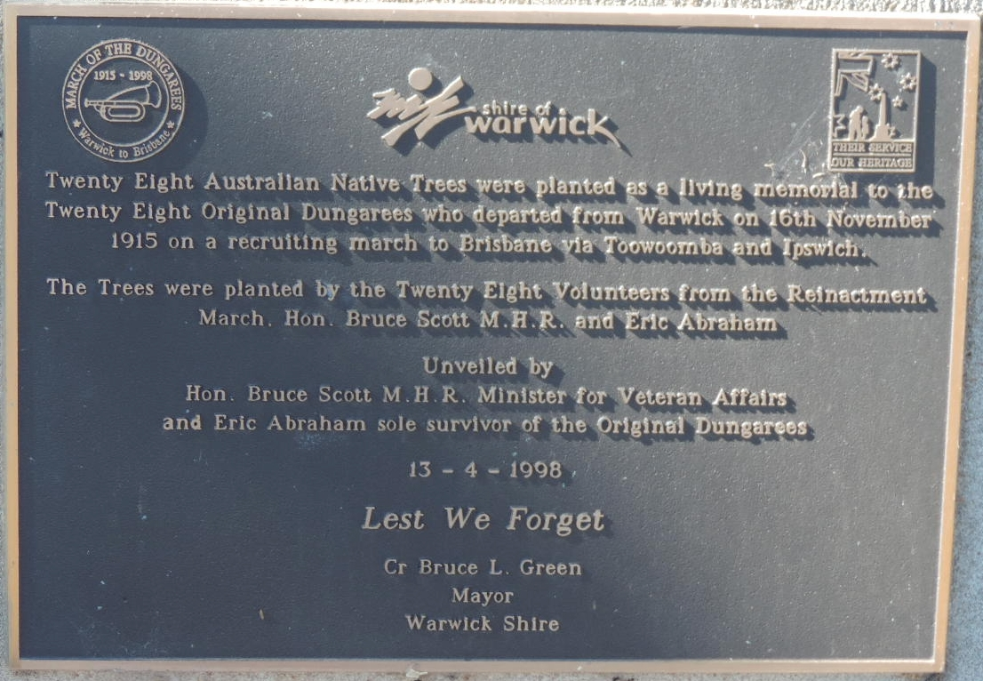 Commemorative plaque for the March of the Dungarees as part of an avenue of trees opposite Warwick General Cemetery